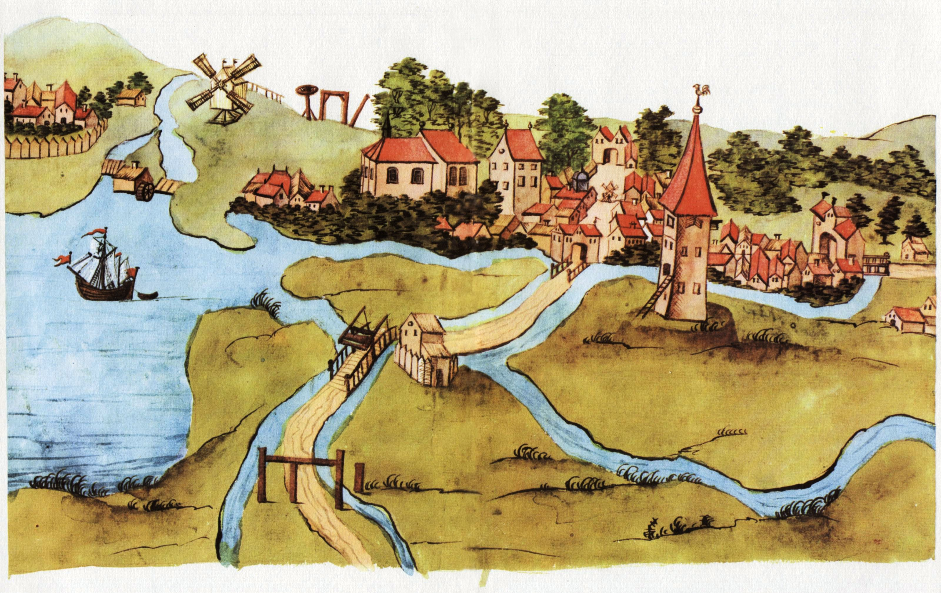 Cityview of Damgarten from the "Stralsunder Bilderhandschrift"